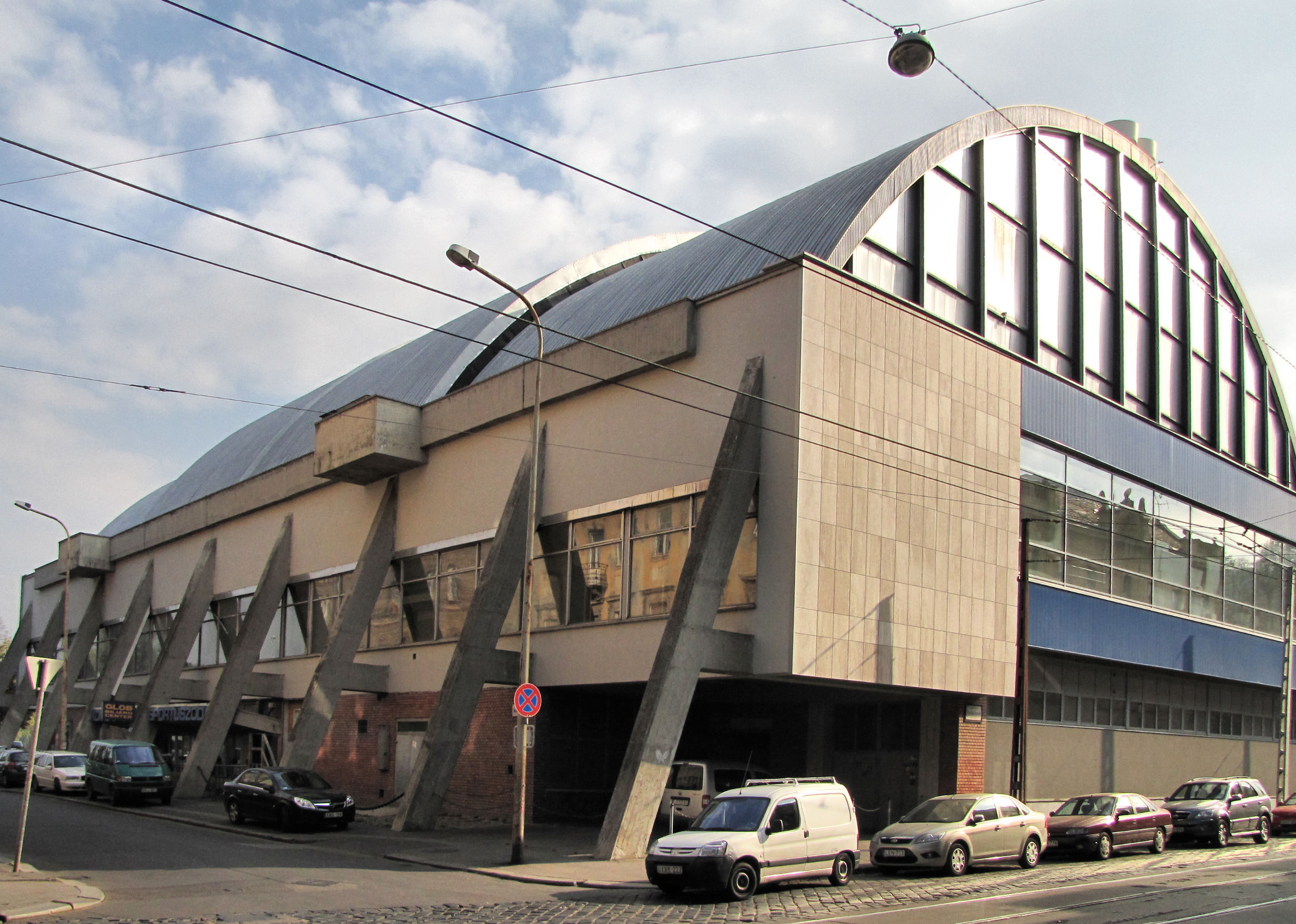 Komjádi Béla Swimming Pool, Budapest, II. Árpád fejedelem útja 8.